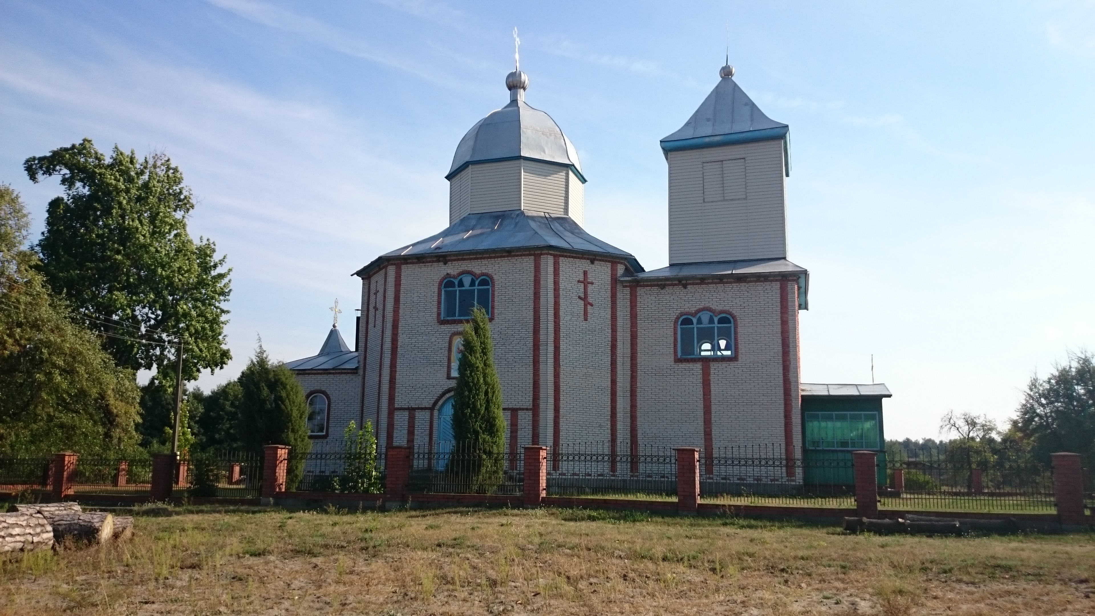 Church of St. Michael in the village Pulemets Shatsk district Volyn region Ukraine